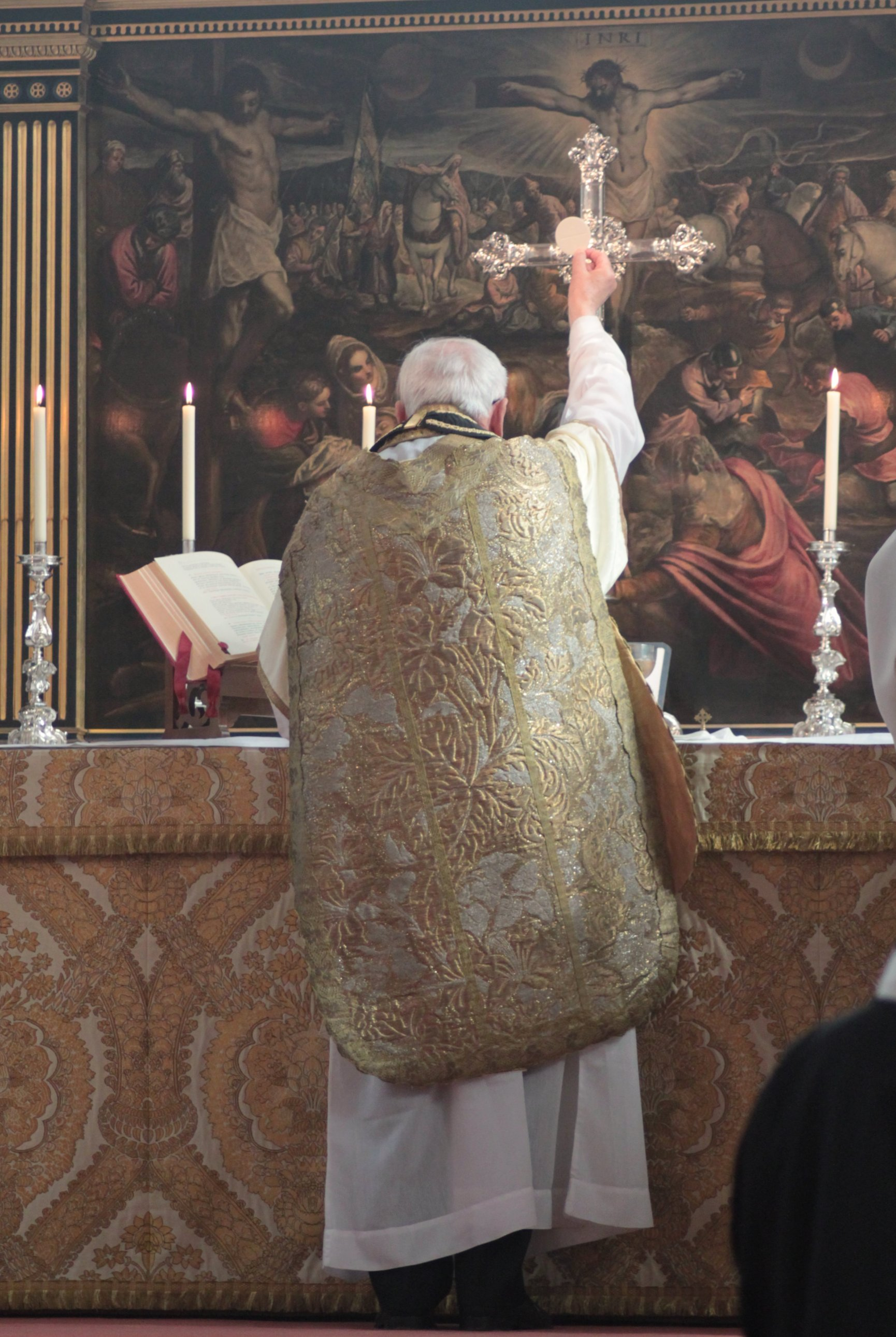 The elevation of the Host